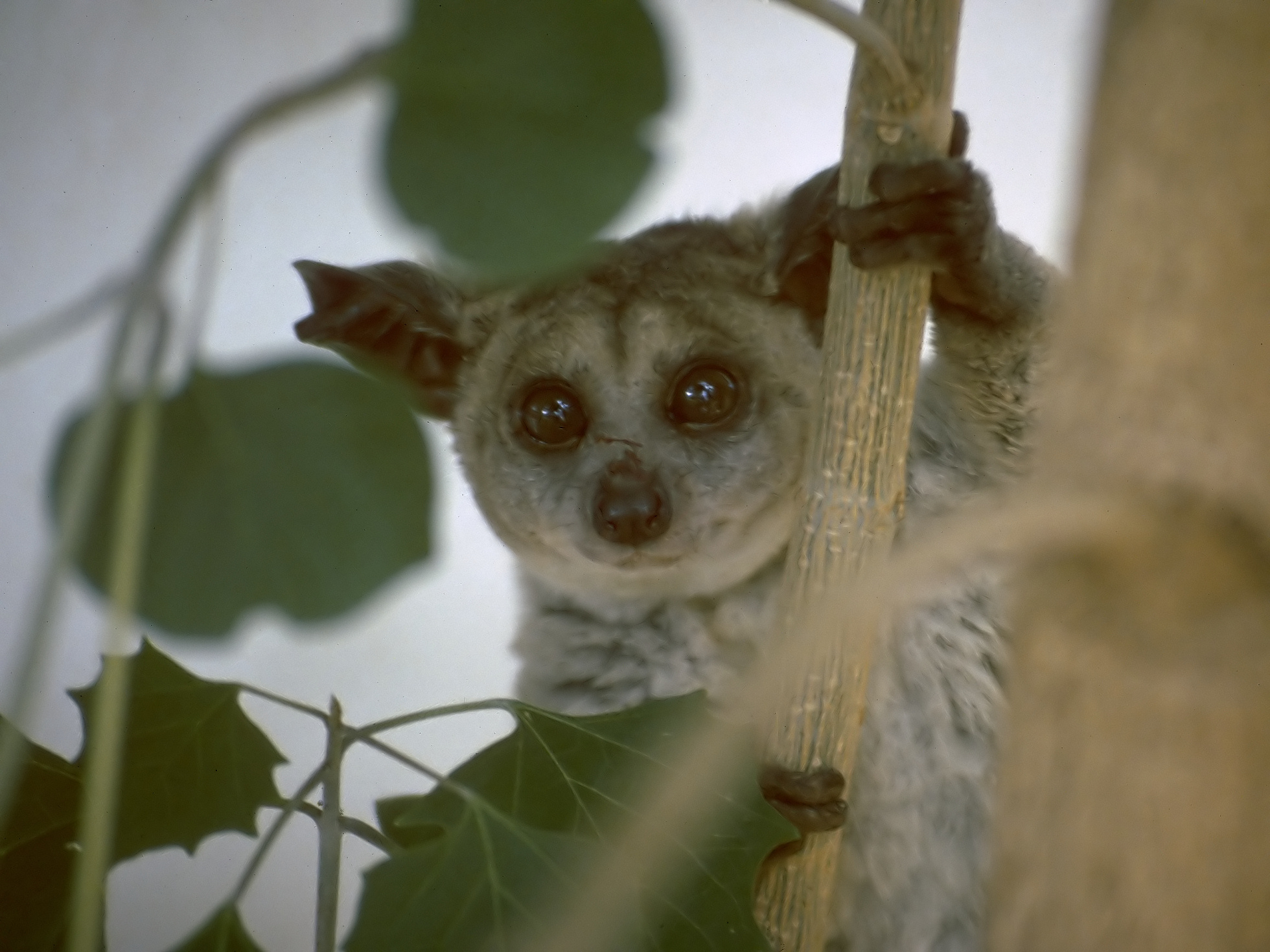 Brown Greater Galago in Chipata, Zambia.Kodak photo CD from slide